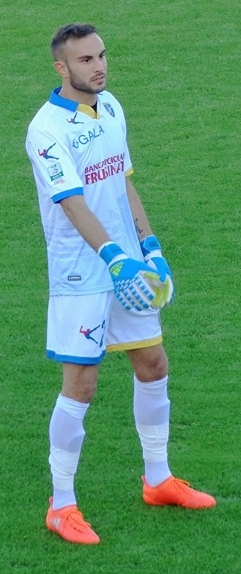 Francesco Bardi, Frosinone football player